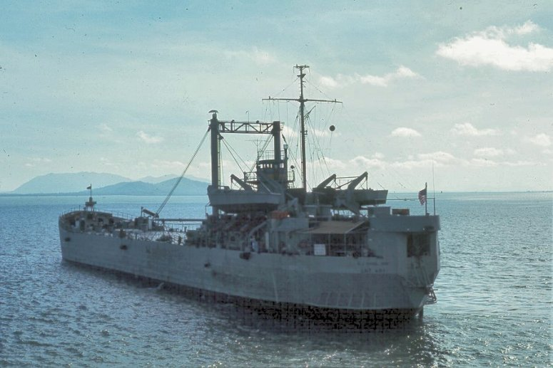 USNS T-LST-491 at anchor, date and place unknown. Official US Navy photo taken from